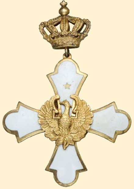 Greece Order of the phoenix